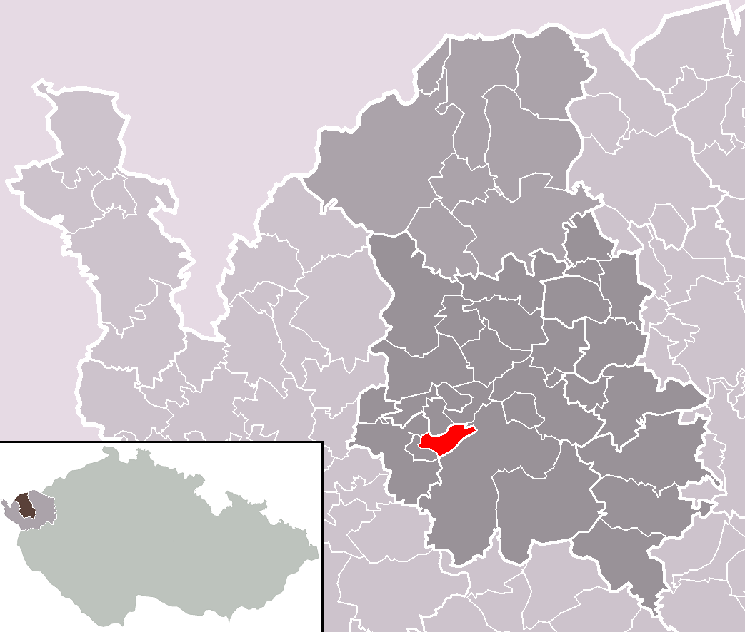 Location of Šabina municipality within Sokolov District and administrative area of Sokolov as a Municipality with Extended Competence.